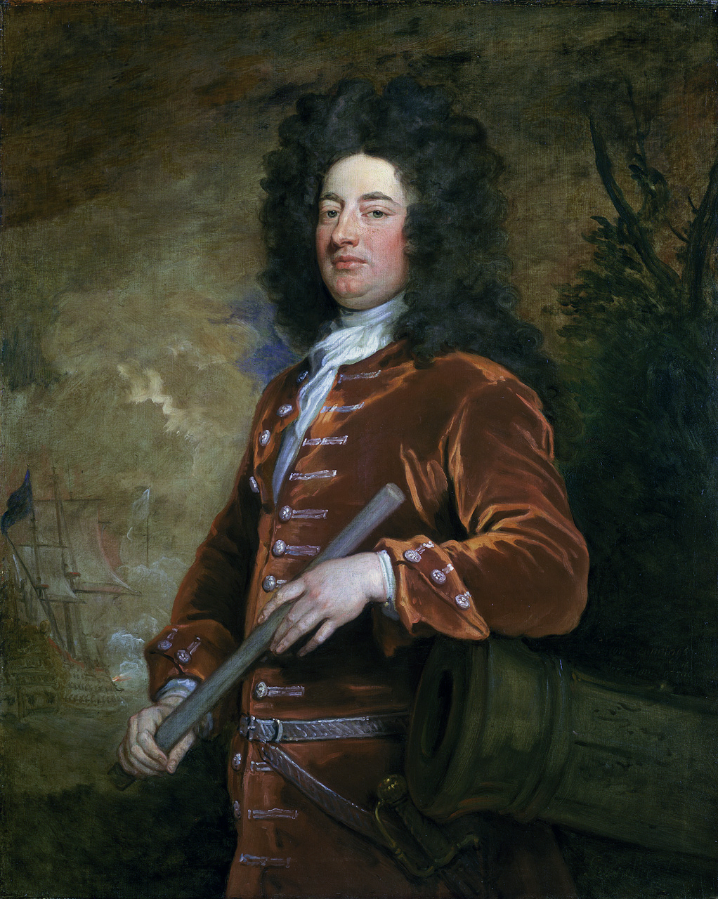 Admiral John Jennings (1664-1743) oil on canvas 126.5 x 122 cm 1708-1709